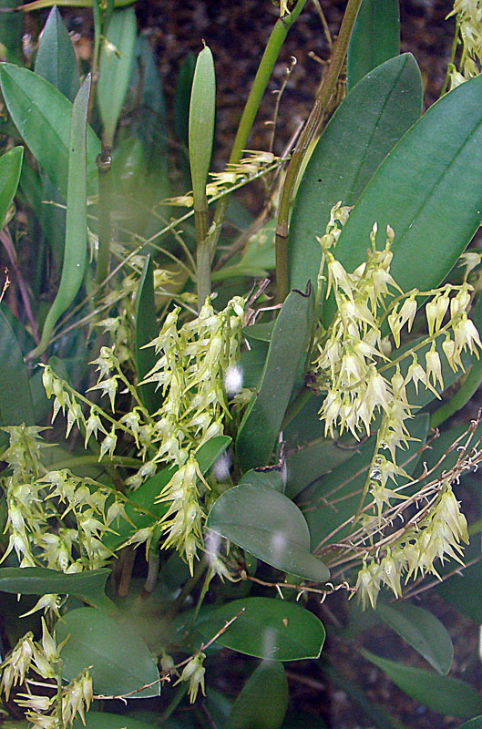 Also known as Pleurothalis citrina. UC Berkeley Botanical Gardens. In context at